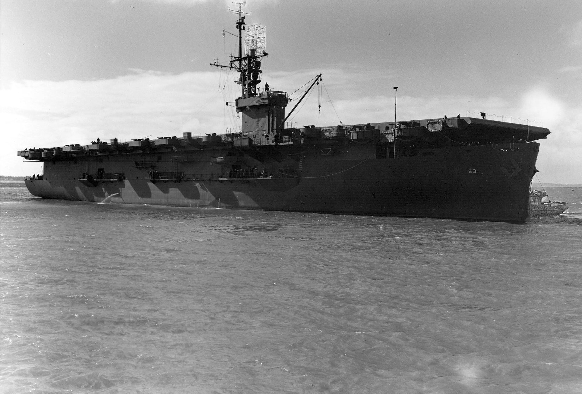 The U.S. Navy escort carrier USS Sargent Bay (CVE-83) being pushed by tugs.